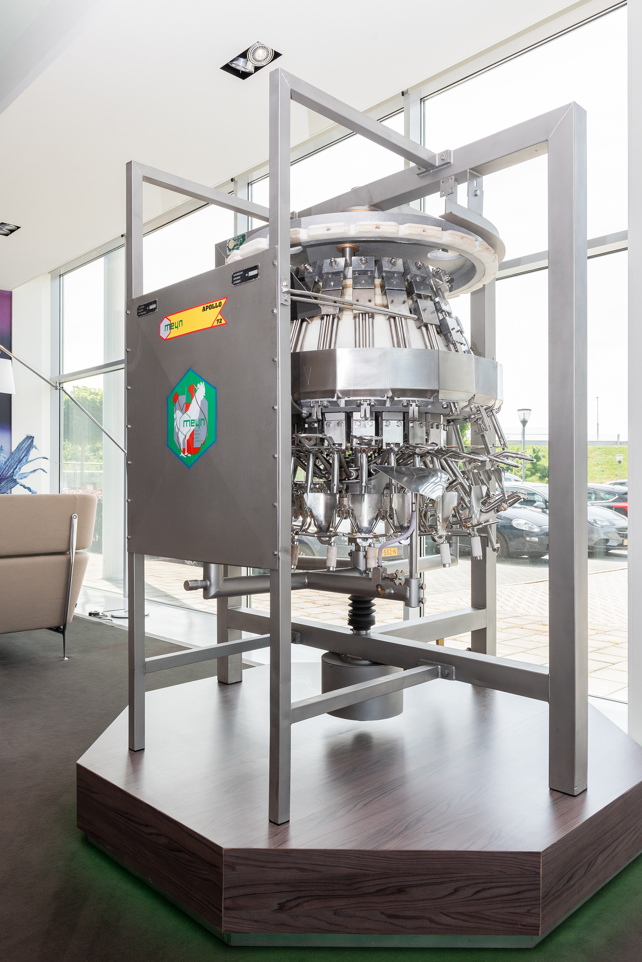 The Apollo eviscerator, developed by Meyn and launched onto the market in 1972, is the forerunner of the current highly successful Maestro eviscerator of which in 2018 the 800th unit was commercially sold.